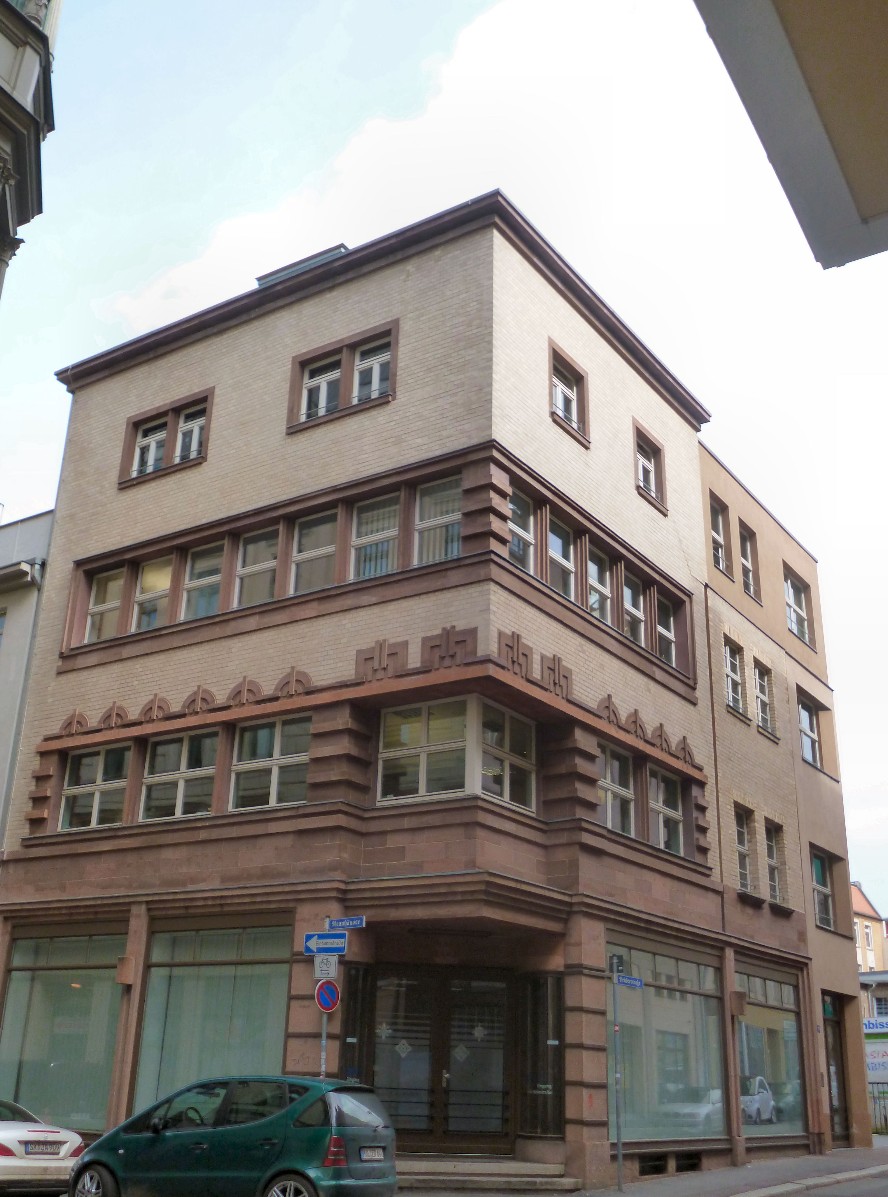 House No. 2, Brüderstrasse in Halle (Saale)